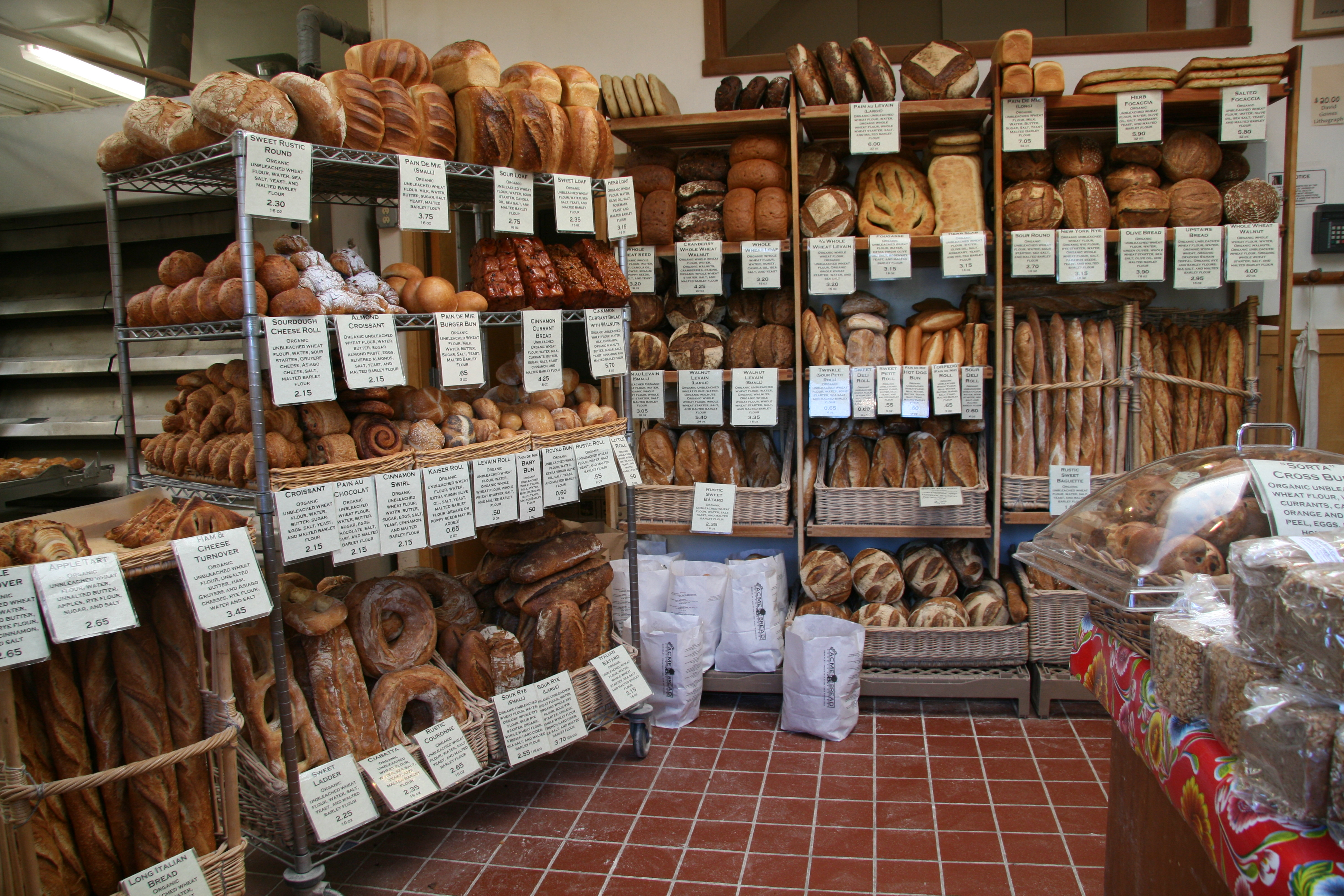 The shop front of Acme Bread Company at Cedar and San Pablo in Berkeley, California